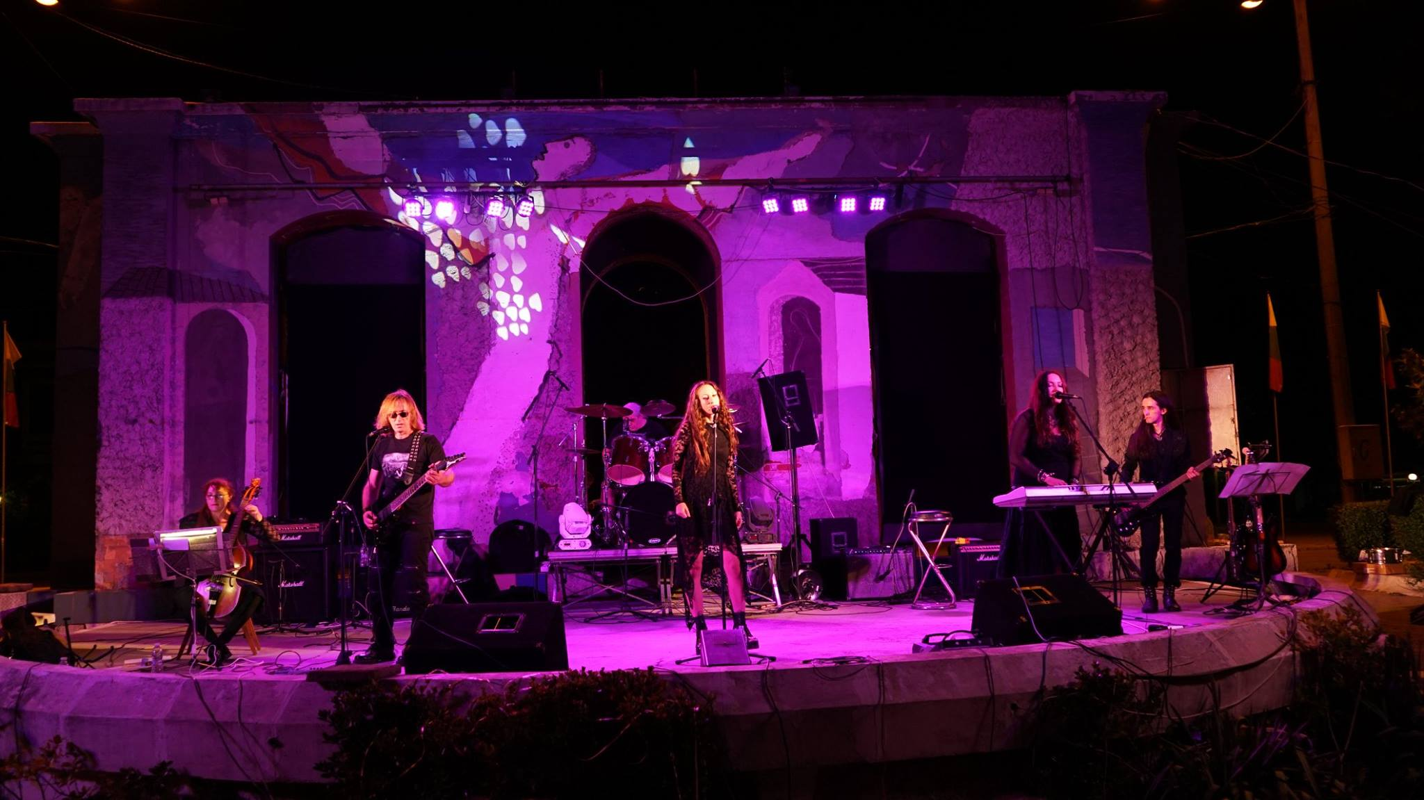 Bendida - live